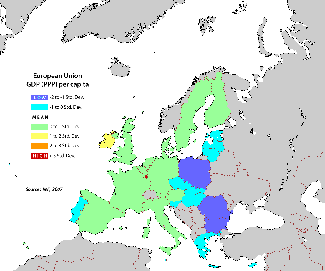 GDP (PPP) per capita of European Union countries in 2007 according to the International Monetary Fund